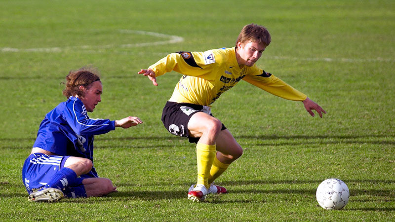 Jonni Heikkinen of KuPS Kuopio escaping from PK-37 -player. Finnish Cup 5th round: June 11, 2006 at Sankariniemi stadium, Iisalmi. PK-37 of Iisalmi vs. KuPS of Kuopio. 0-5(0-2) Own photo (by Juha Makkonen).